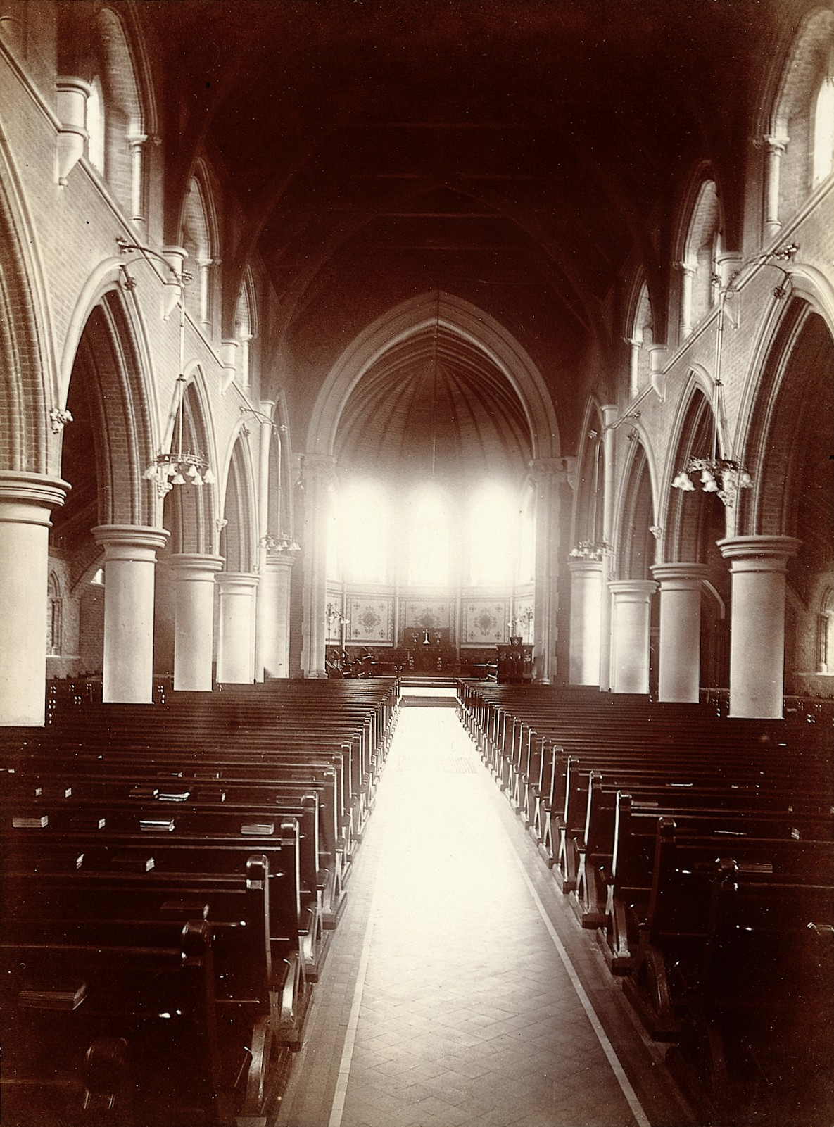 Inside the nave of the chapel of Claybury Asylum, Woodford, Essex, looking toward the apsidal chancel.Photograph by the London & County Photographic Co., [1893?]. Iconographic Collections Keywords: Hospitals; Claybury Asylum (Woodford, Essex); London & County Photographic Co.